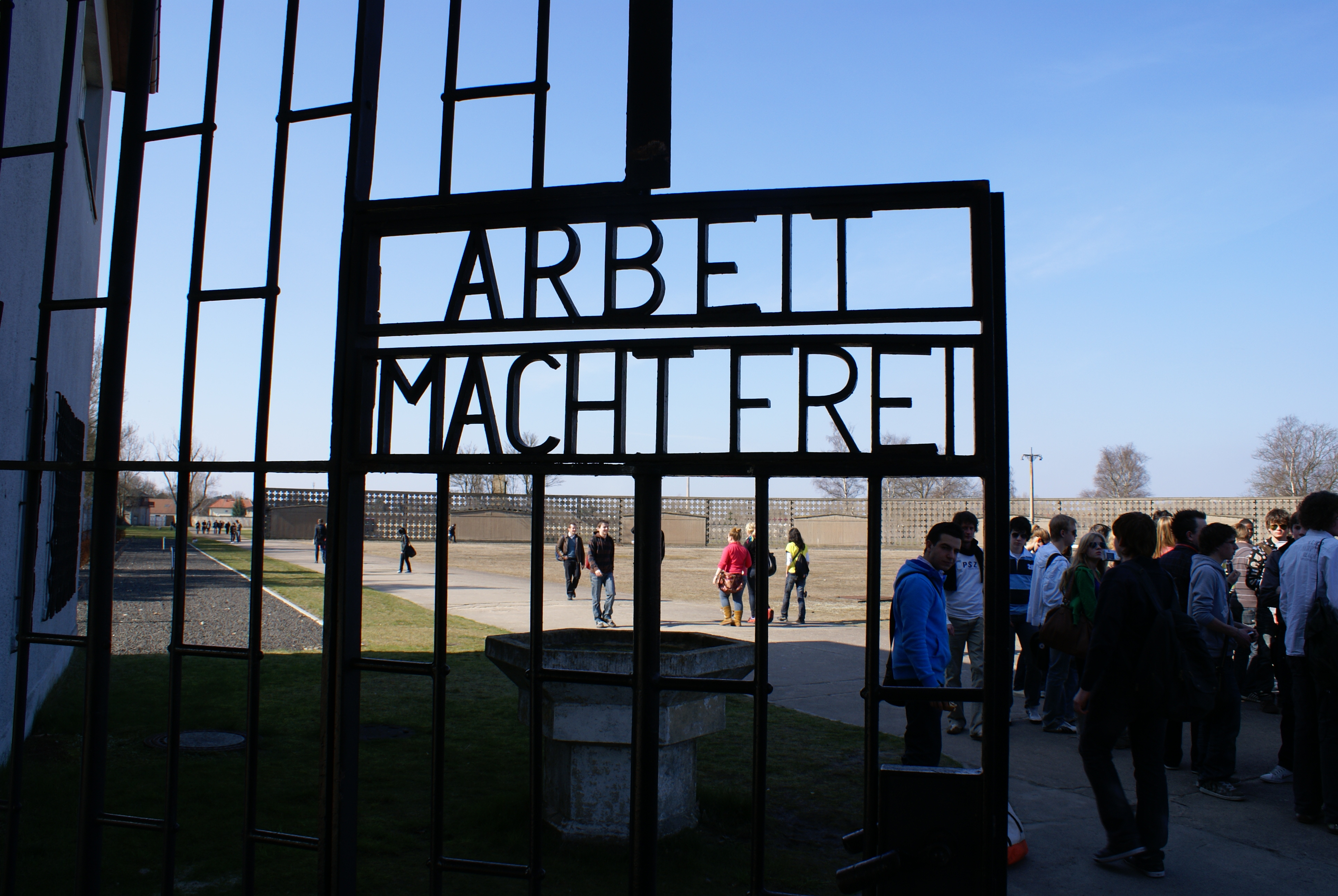 Picture of the entrance/gate of concentrationcamp Sachsenhausen.